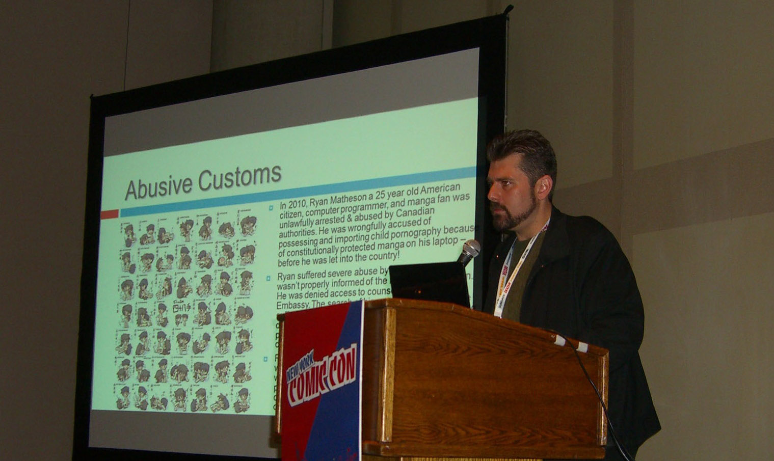 Charles Brownstein, Executive Director of the Comic Book Legal Defense Fund, speaking during a presentation on the CBLDF on Day 2 of the 2012 New York Comic Con, Friday October 12, 2012 at the Jacob K. Javits Convention Center in Manhattan. This photo was created by Luigi Novi. It is not in the public domain, and use of this file outside of the licensing terms is a copyright violation.